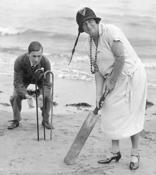 Cliftonville, England: Mrs. Hobbs Follows Her Husbands Footsteps. Mrs. Hobbs, the wife of England's famous cricketer...who has just completed his 126 Century (100 runs or more in one inning), is spending a few holidays with her children at Cliftonville. Photo shows her endeavoring to emulate her husband at the wicket, while her son acts as the wicket keeper.